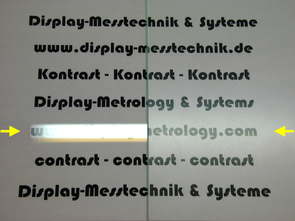 The photo illustrates the effect of a polished glass surface (left) and a matte glass surface (right) on the contrast of the visual information when ambient light is reflected in the display. The light source (fluorescent lamp) is distinctly visible on the left and the intensity of refected light is so high that the information hardly can be recognized (disability glare). Outside of the specular direction (i.e. where there is no image of the lamp) the contrast of the text is high. On the right side the incident light is scattered about the specular direction (yellow arrows), the contrast in the specular direction is reduced, but no distinct image of the lamp is visible and the text can be read without problems. Outside of the specular direction a veiling glare can be observed that is slightly reducing the contrast over an extended area.